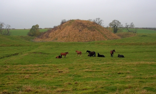 Castle Hill The remains of a medieval motte and bailey castle dating from 1143 during a dispute between the Lord of Bishopston and the Bishop of Durham.